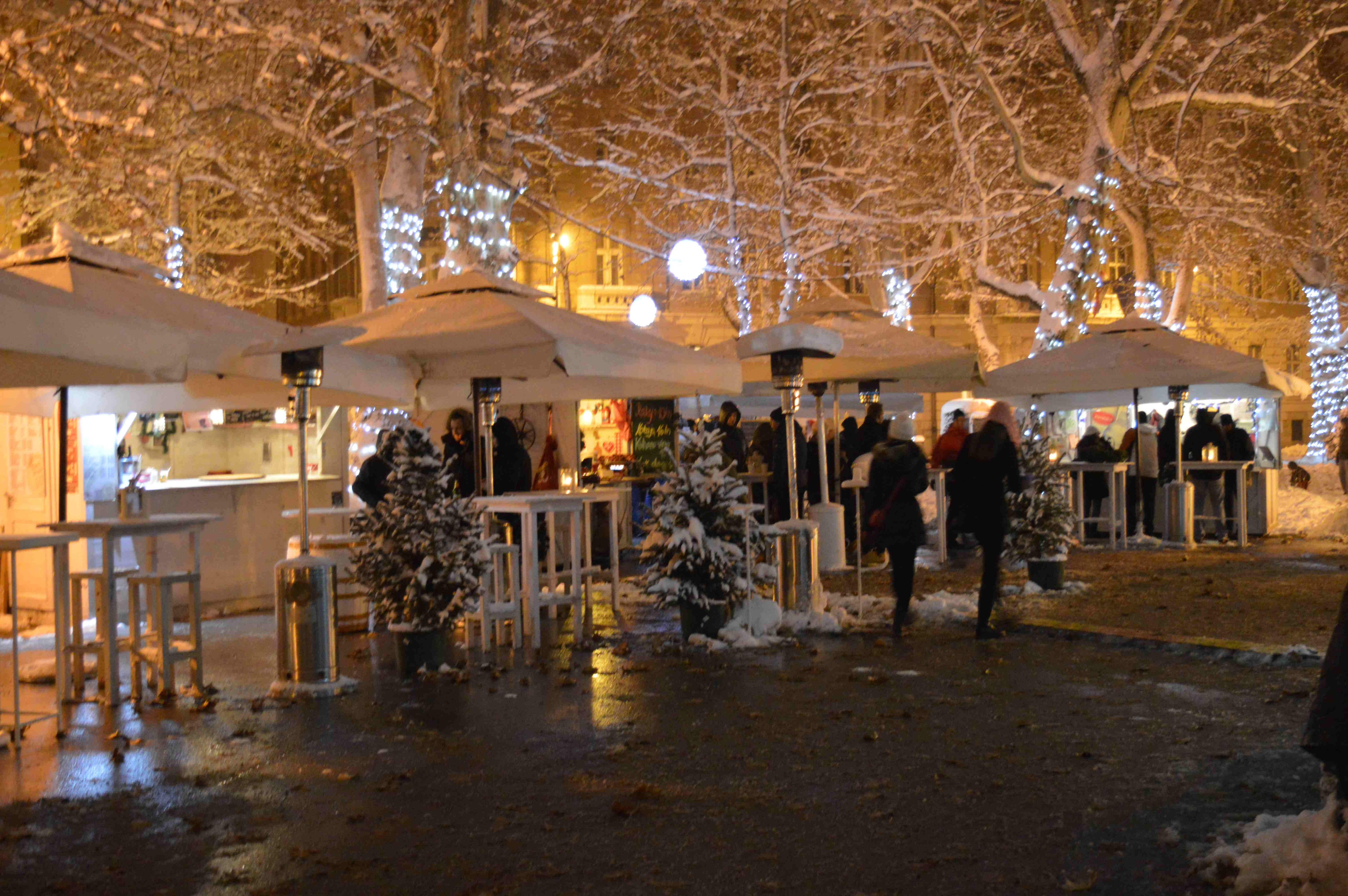 Christmas lights in Zagreb